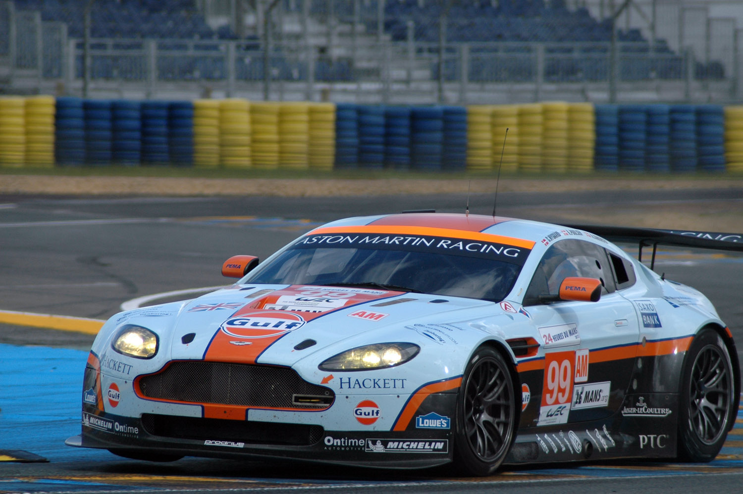 Allan Simonsen at the wheel of his Aston Martin Vantage GT2, PM04:09 June 3rd 2012, second Ford chicane, Le Mans testday 2012.